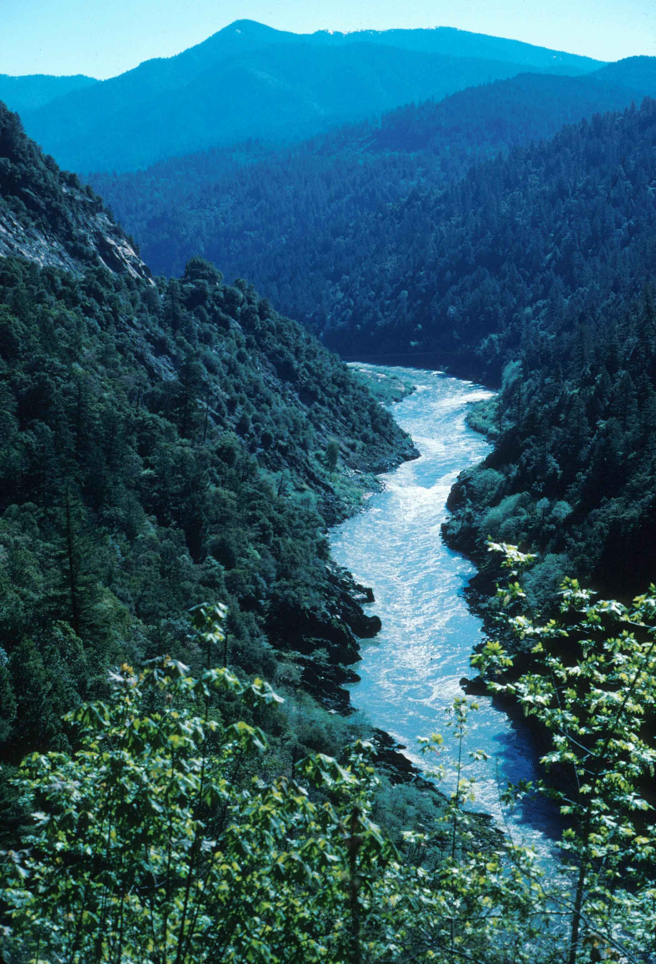 Image title: Klamath river California Image from Public domain images website